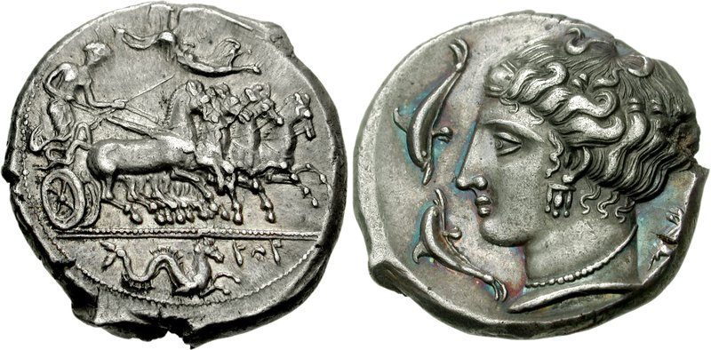 Sicily, Panormos (as Ziz). Circa 405-380 BC. AR Tetradrachm (17.17 g, 3h). Charioteer, holding kentron in left hand, reins in both, driving fast quadriga right; above, Nike flying left, crowning charioteer with wreath she holds with both hands; in exergue, ketos right and Punic ṢYṢ Head of female left, wearing triple-pendant earring and necklace; three dolphins around. Struck from dies influenced by the Sicilian masters.